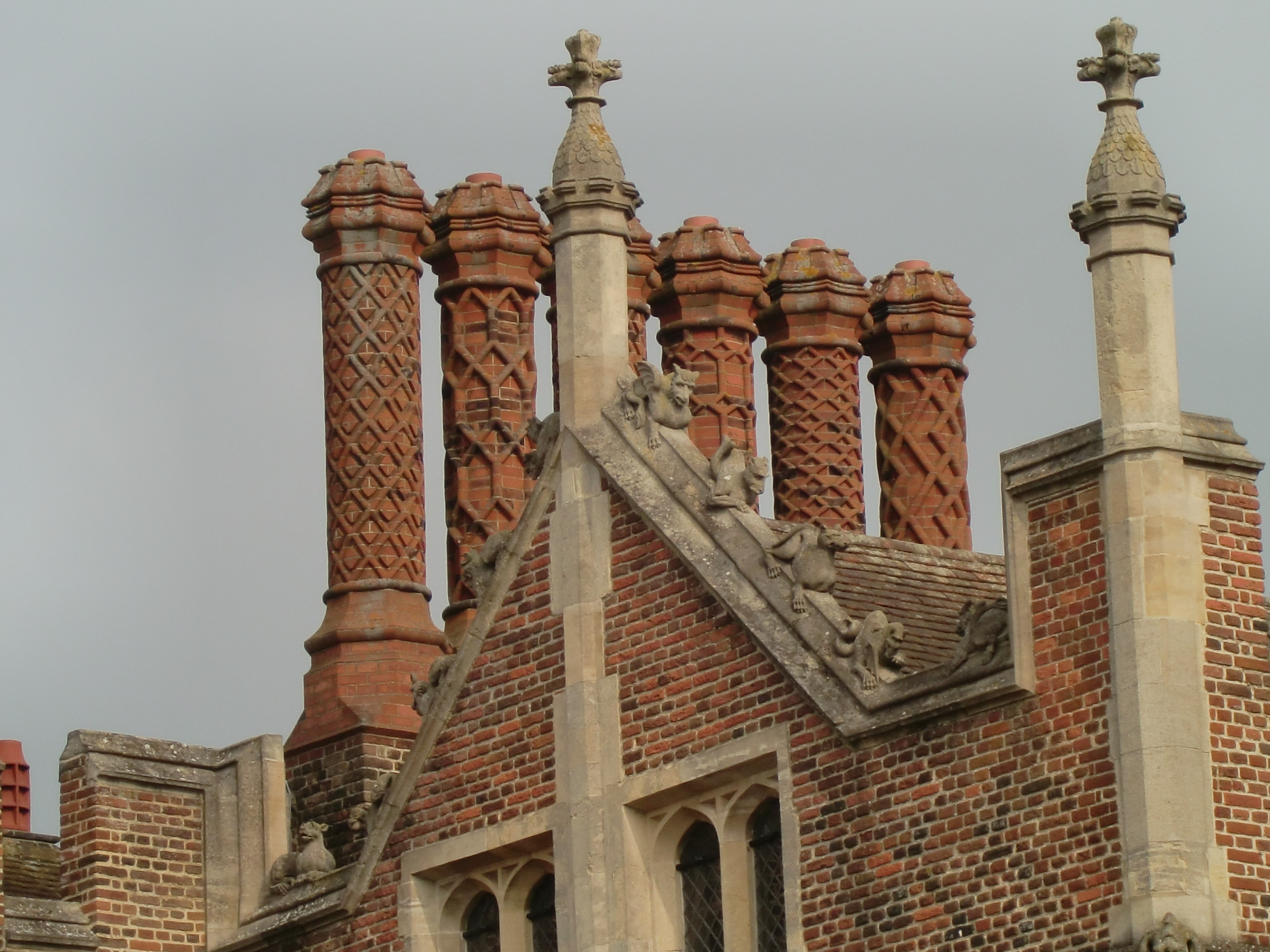 Front of Hampton Court Palace detail of roof decoration inc chimneys